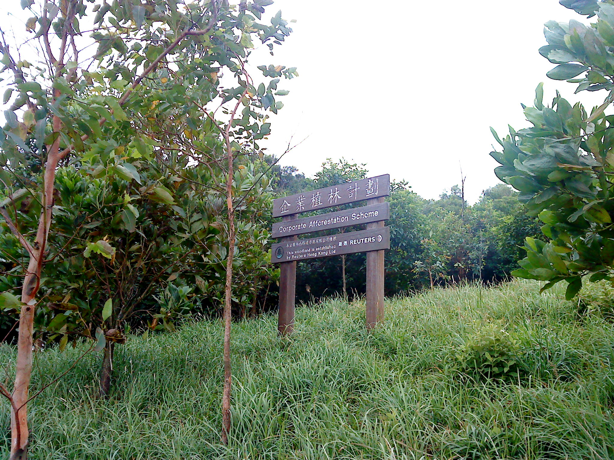 CAR by Reuter